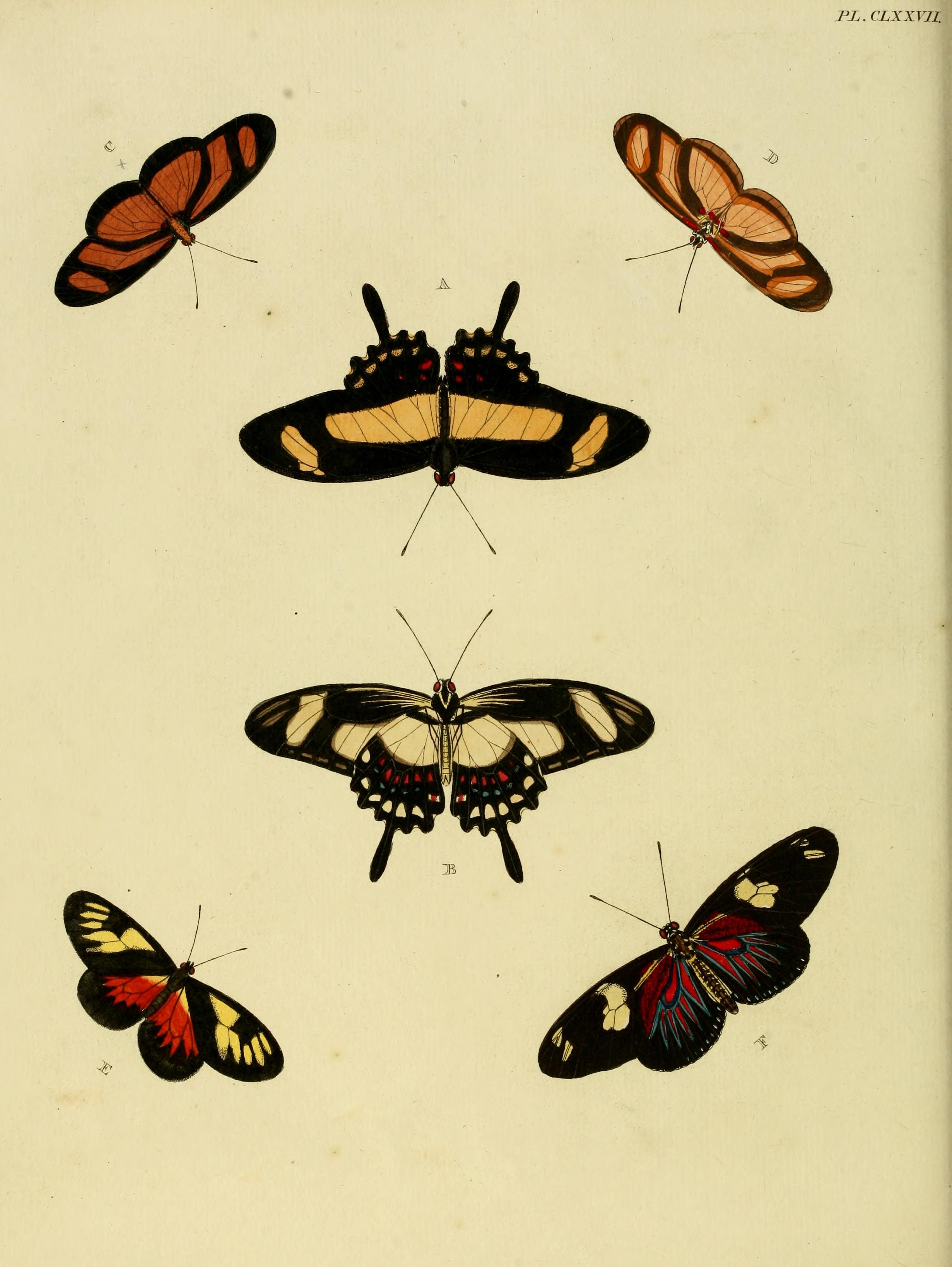 Plate CLXXVII A, B: "(Papilio) Torquatus" ( = Papilio torquatus, iconotype?), see Funet. Photos at Butterflies of America C, D: "(Papilio) Hypsipyle" ( = Eueides lybia lybia), see Funet. Photos at Encyclopedia of Life E: "(Papilio) Erycinia" ( = Archonias brassolis brassolis), see Funet. F: "(Papilio) Amathusia" ( = Laparus doris doris), see Funet. Photos at Wikipedia